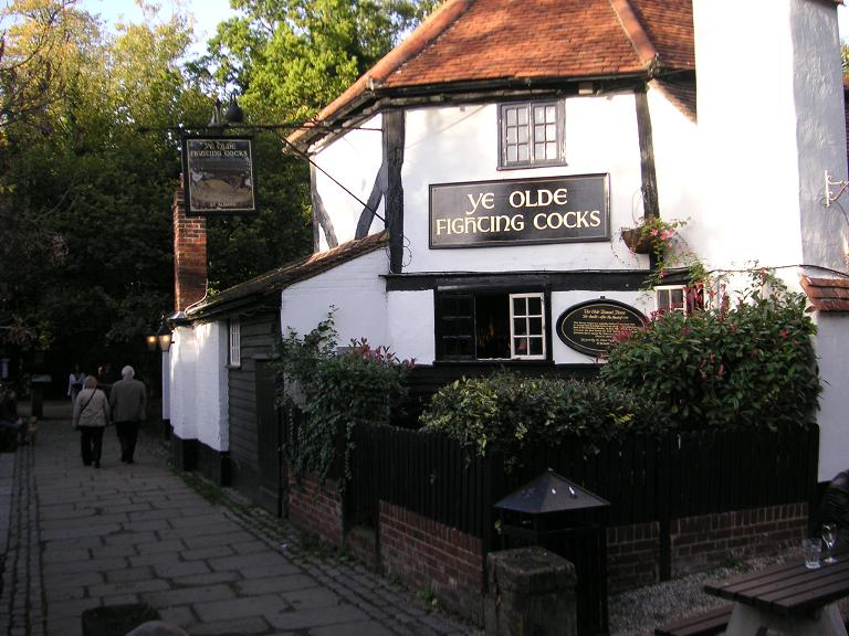 Photograph of Ye Olde Fighting Cocks public house in St Albans (October 2006)